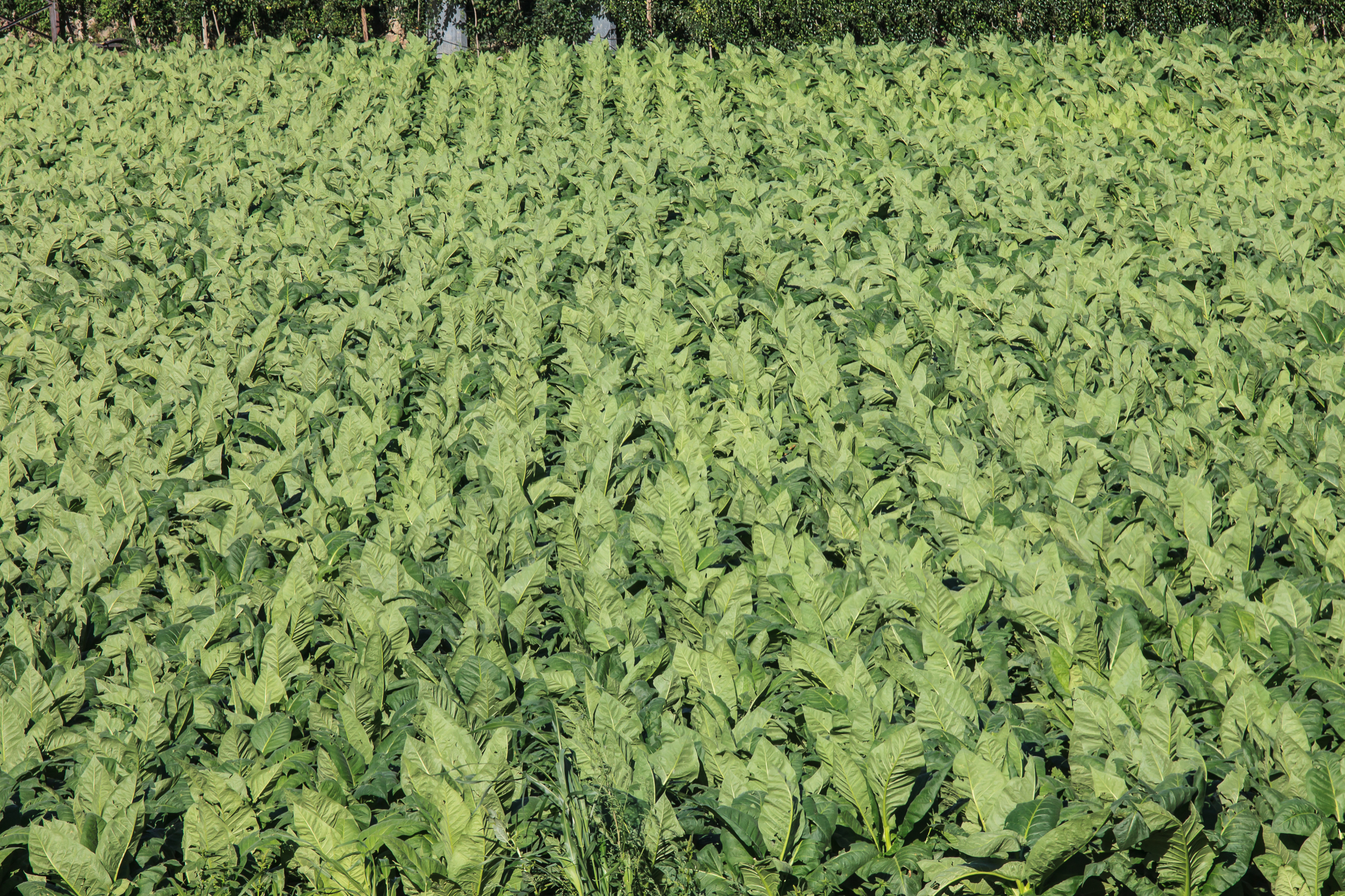 Tobacco plantation, Escaldes, AndorraGalego: Plantación de tabaco. Escaldes-Engordany. Andorra.